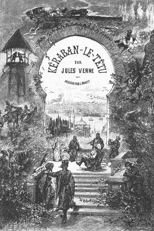 An ilustration from "Kéraban the Inflexible" by Jules Verne paited by Léon Benett.